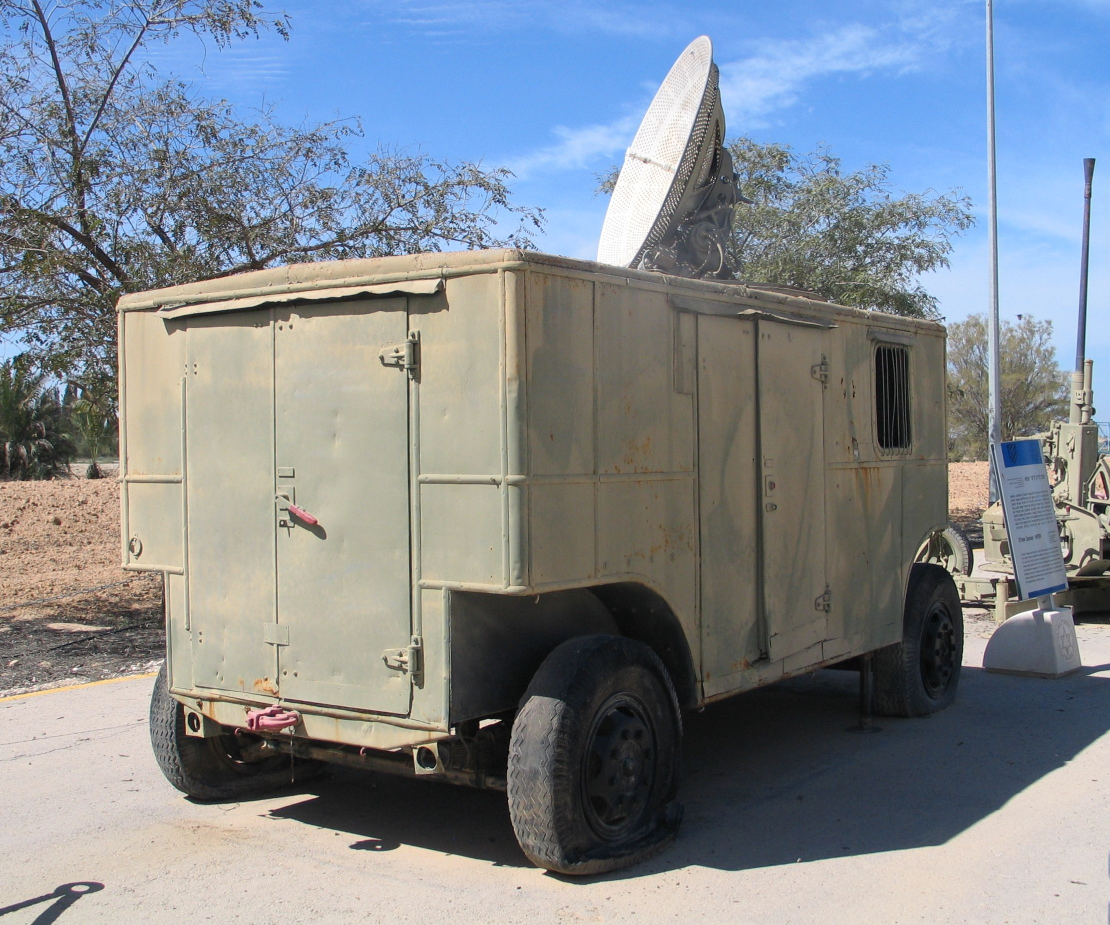 Muzeyon Heyl ha-Avir, Hatzerim, Israel.